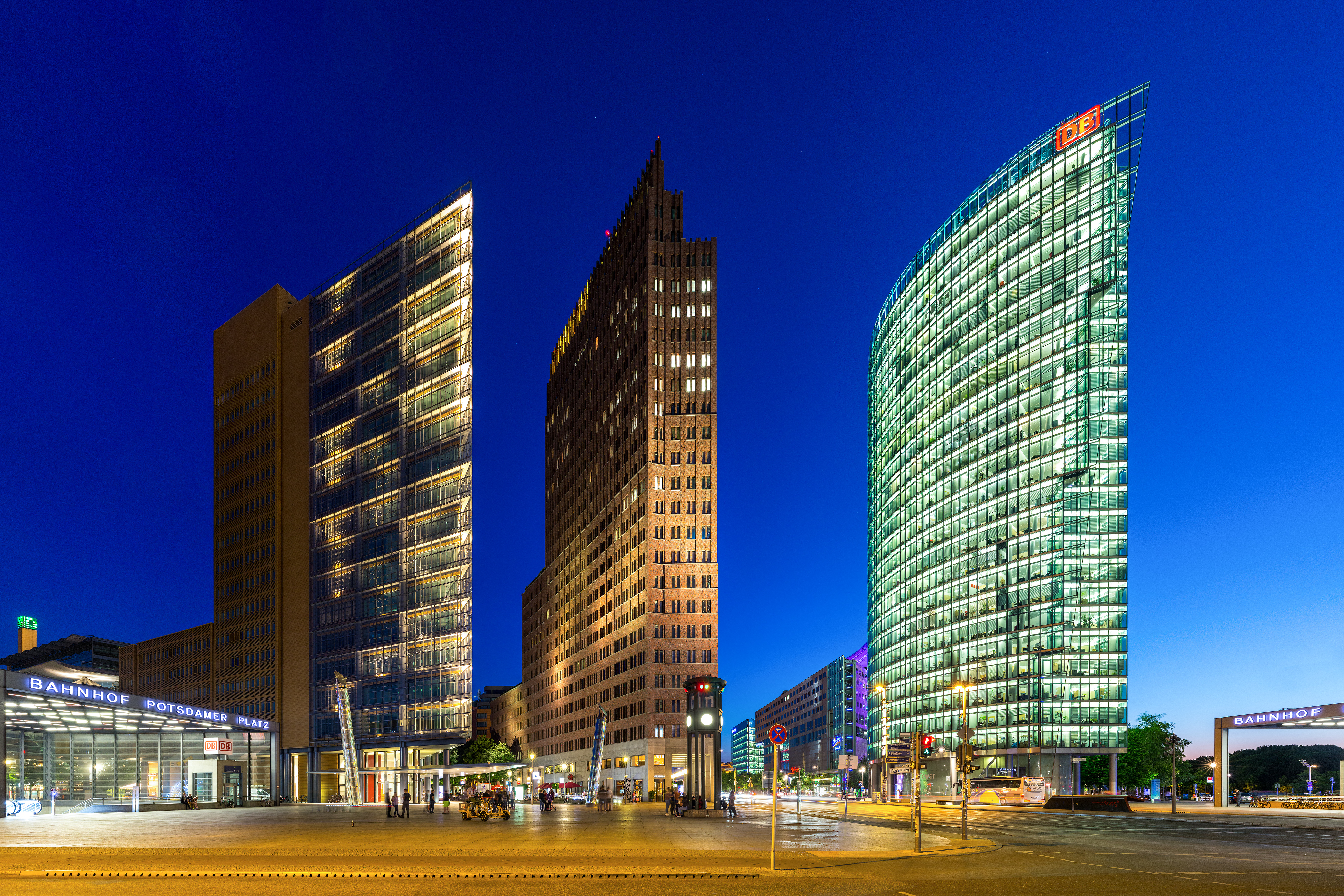 Skyscapers at Potsdamer Platz, Berlin at the end of the blue hour. Buildings and their architects from left to right: Atrium-Tower (Renzo Piano), Kollhoff-Tower (Hans Kollhoff), BahnTower (Helmut Jahn).